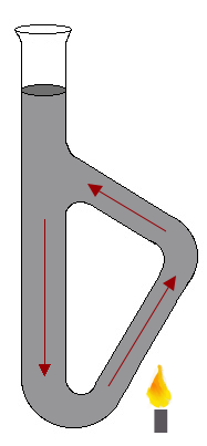 Thiele_Tube_V3.png (Original text: "Thiele Tube Drawing Vers. 3")